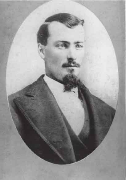 Historical photo: the only known portrait photo of Frank McLaury of Tombstone.